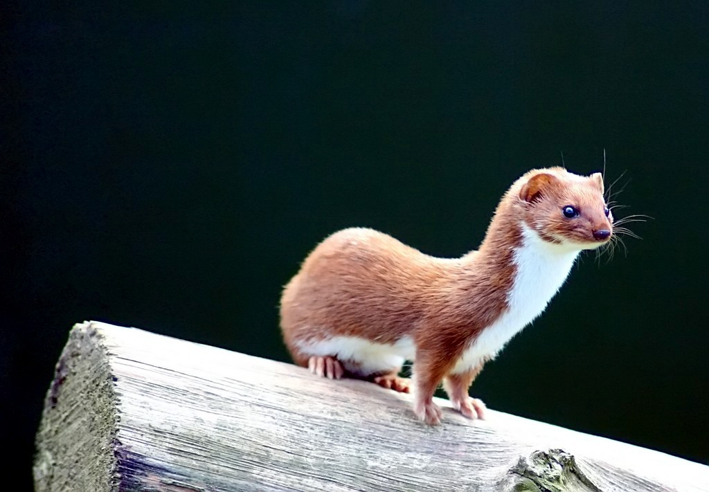 Weasel - British Wildlife centre, Surrey, England - Sunday August 17th 2008.